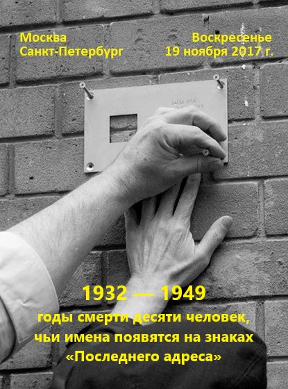 The Last Address Sign is a commemorative plaque that is installed on the last known residential address of victims of the Soviet Union's Communist regime. The memorial sign is a small, 11x19 cm stainless steel plaque that contains information about the repressed person. This information usually contains his or her name, profession, date of birth, date of arrest, date of death, and date of exoneration.